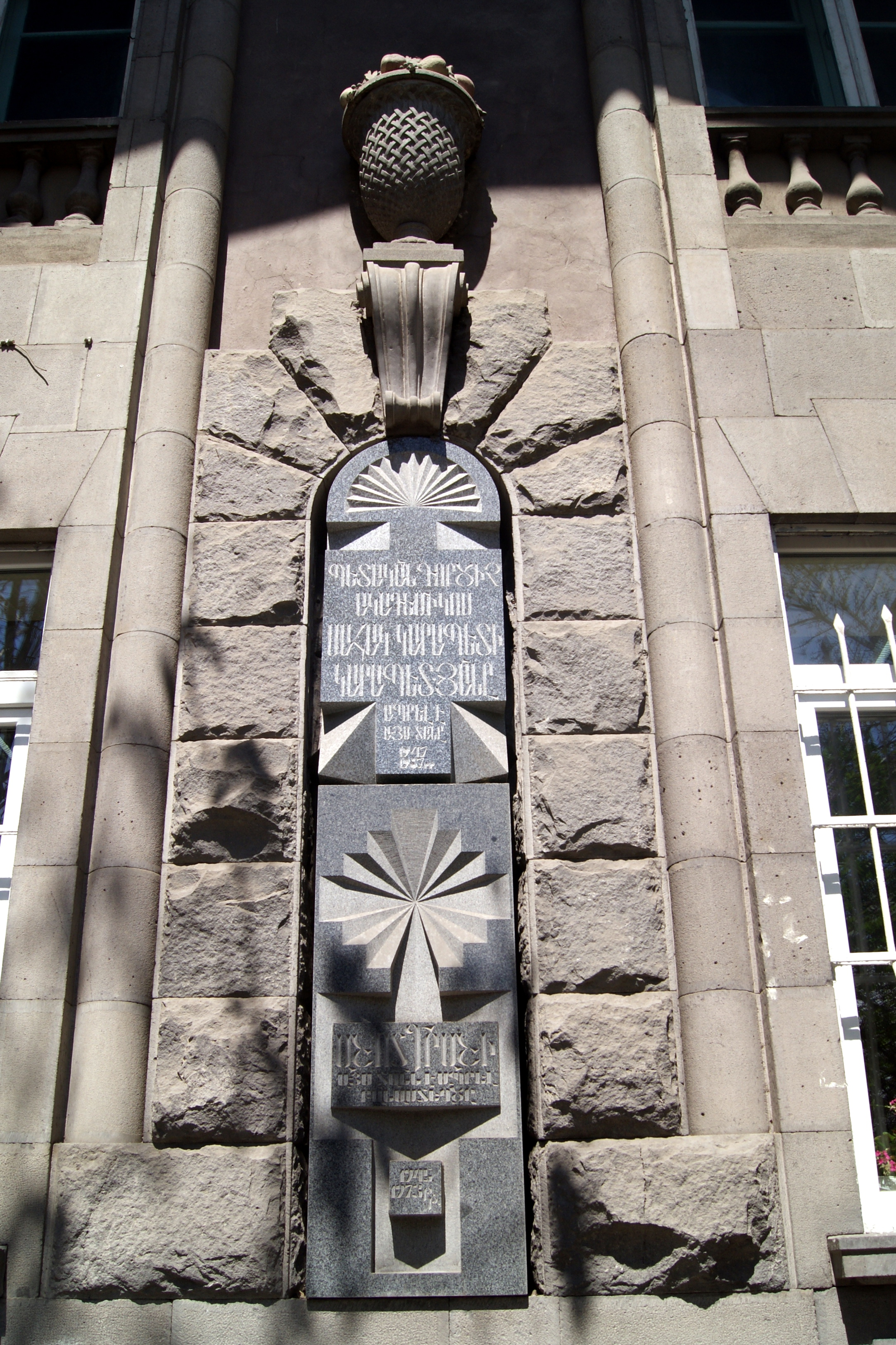 Building with plaques on Baghramyan avenue